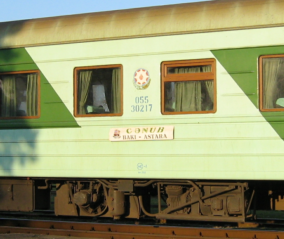 A part of a wagon of "Canub" train (Baku-Astara) in Azerbaijan